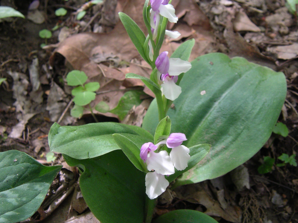 Galearis spectabilis